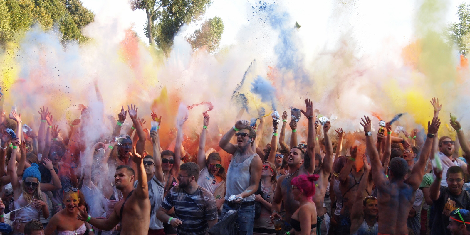 The Hindu festival of Holi Celebrations and partying on Holi in Germany 2012